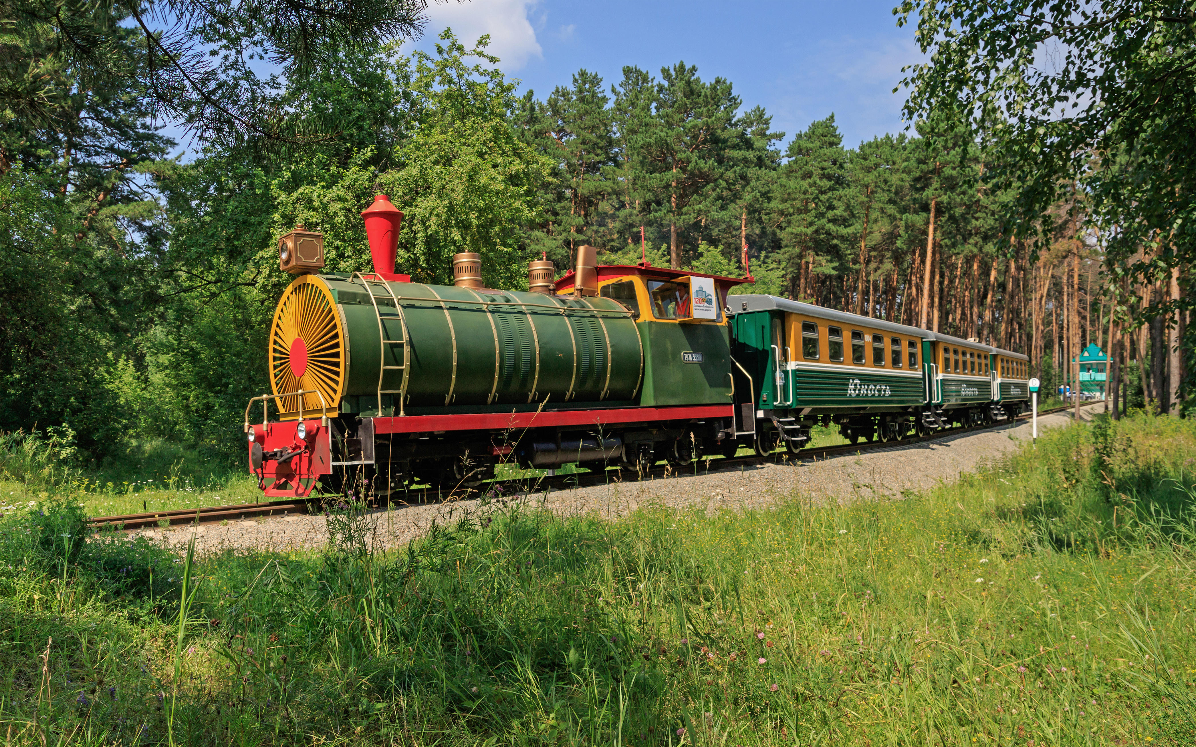 Children's railway of Zaeltsovsky Park in Novosibirsk, Russia